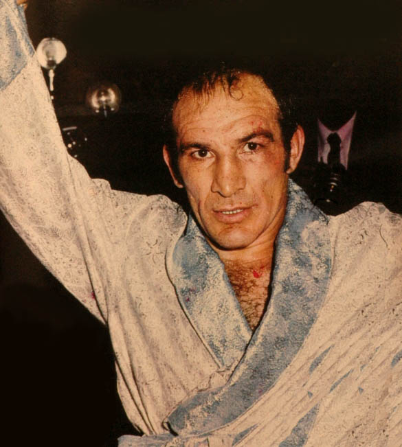 Argentine boxer Nicolino Locche as covered on El Gráfico magazine in 1973.